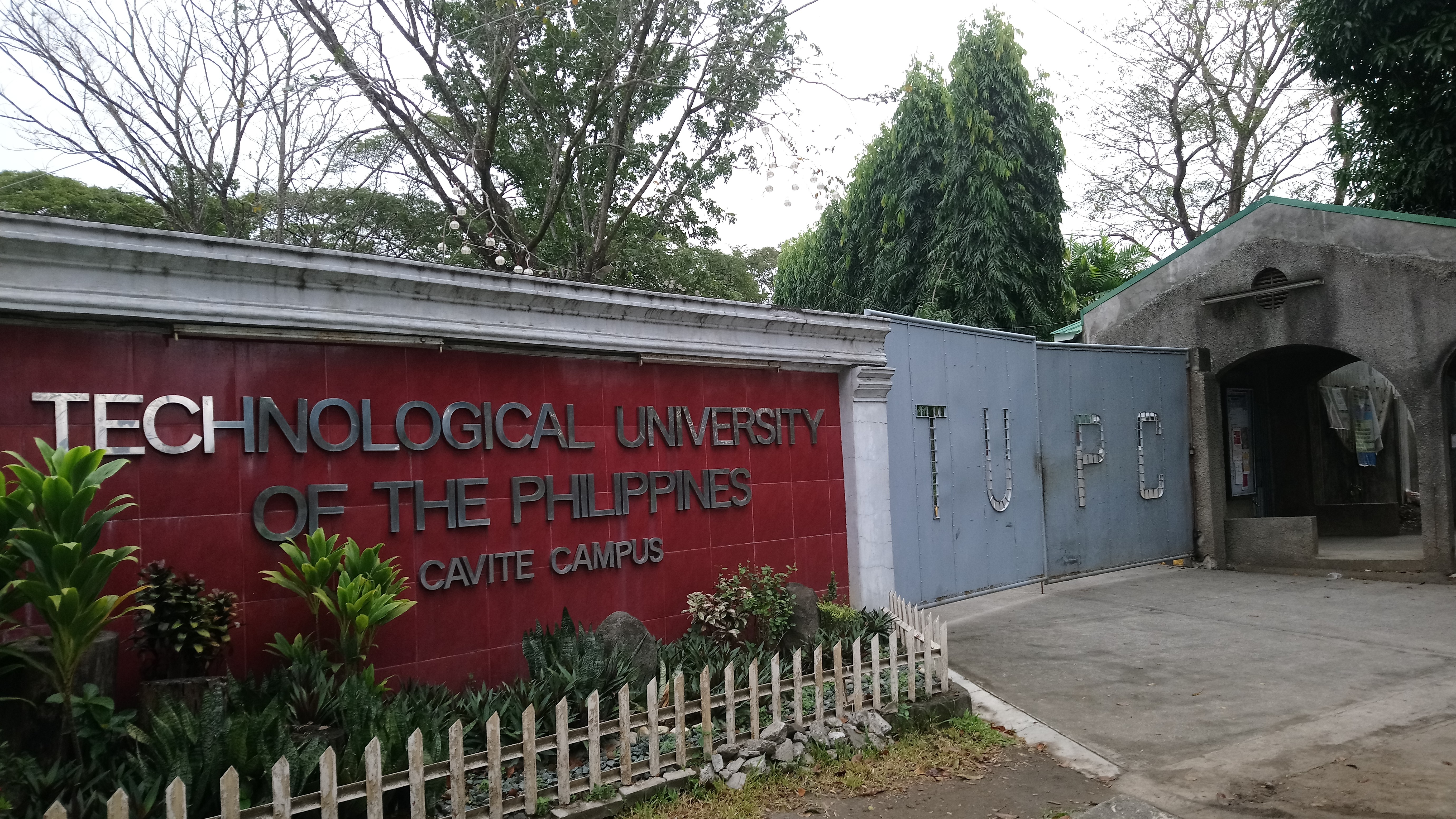 Main entrance and facade of the Cavite campus of TUP